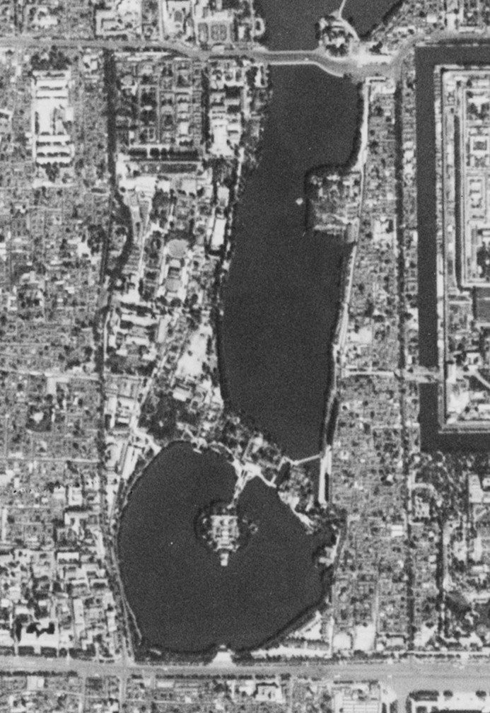 Subway Station of Beijing Railway Station in construction. Spatial tentatively corrected. 中文（中国大陆）: 建设中的地铁北京站。空间上尝试性矫正过。